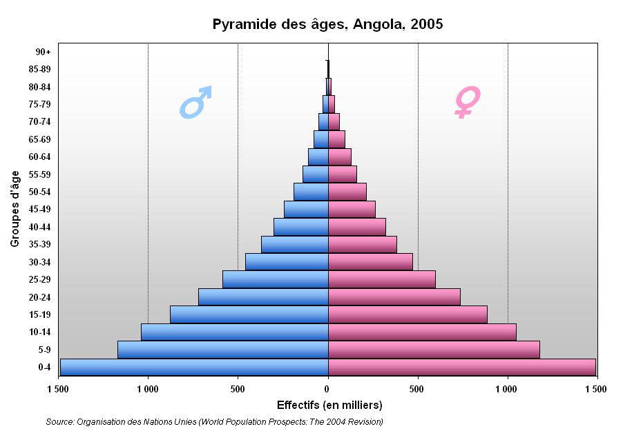 Angola Population pyramid, 2005